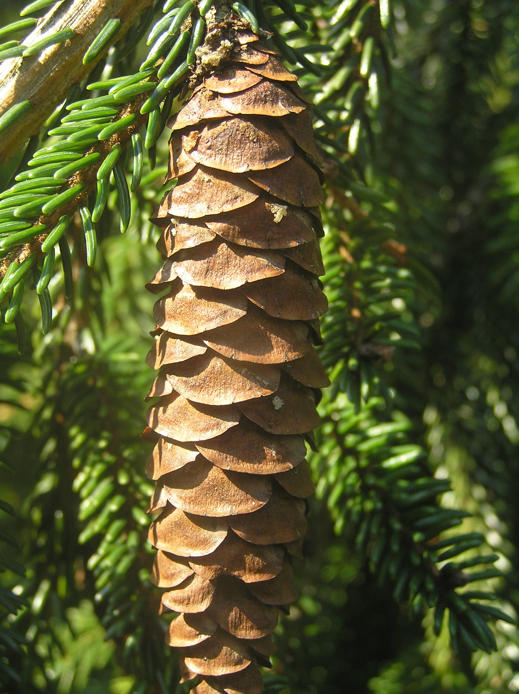 Picea orientalis, cultivated in the Czech Republic, arboretum Žampach